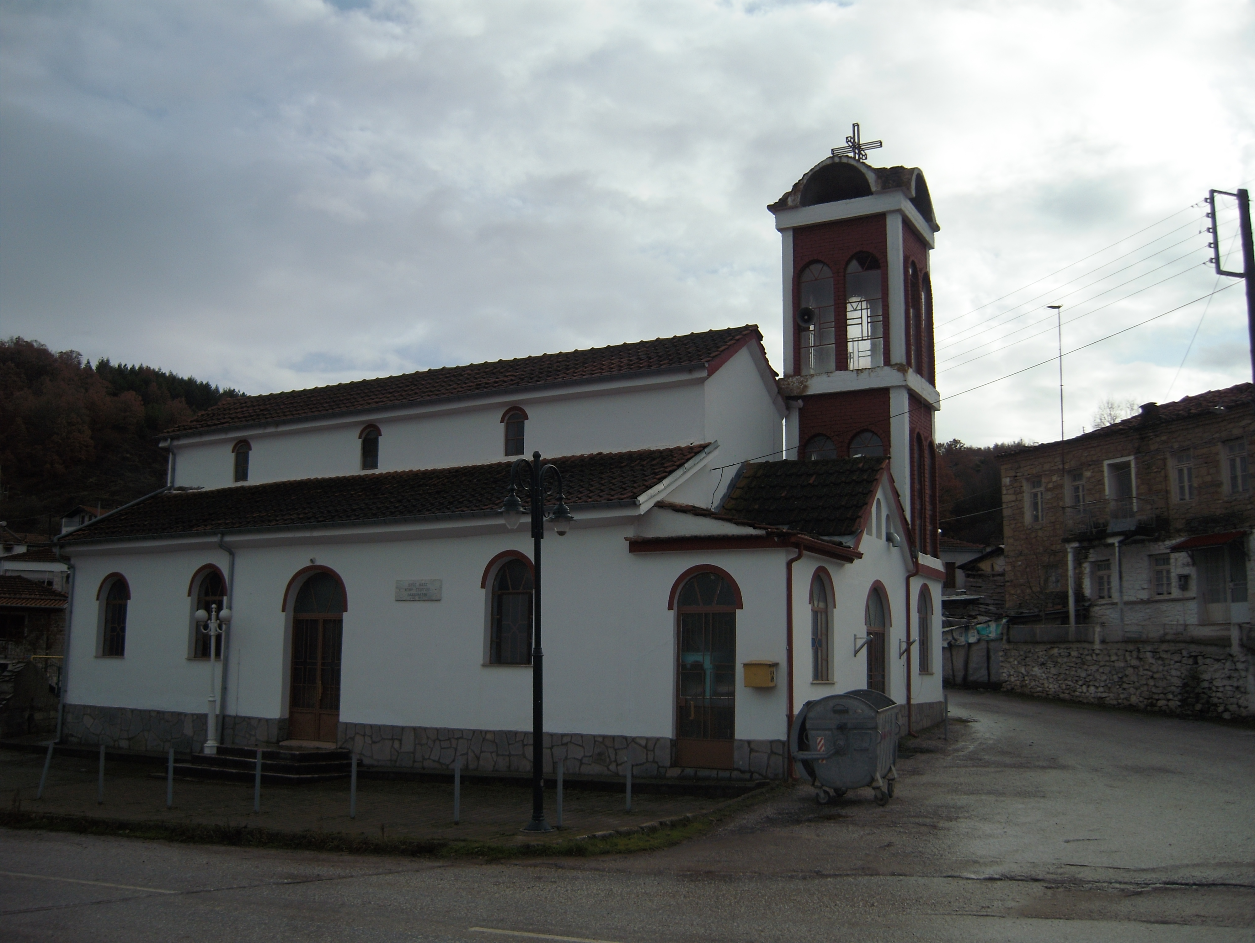 Starichani / Lakomata